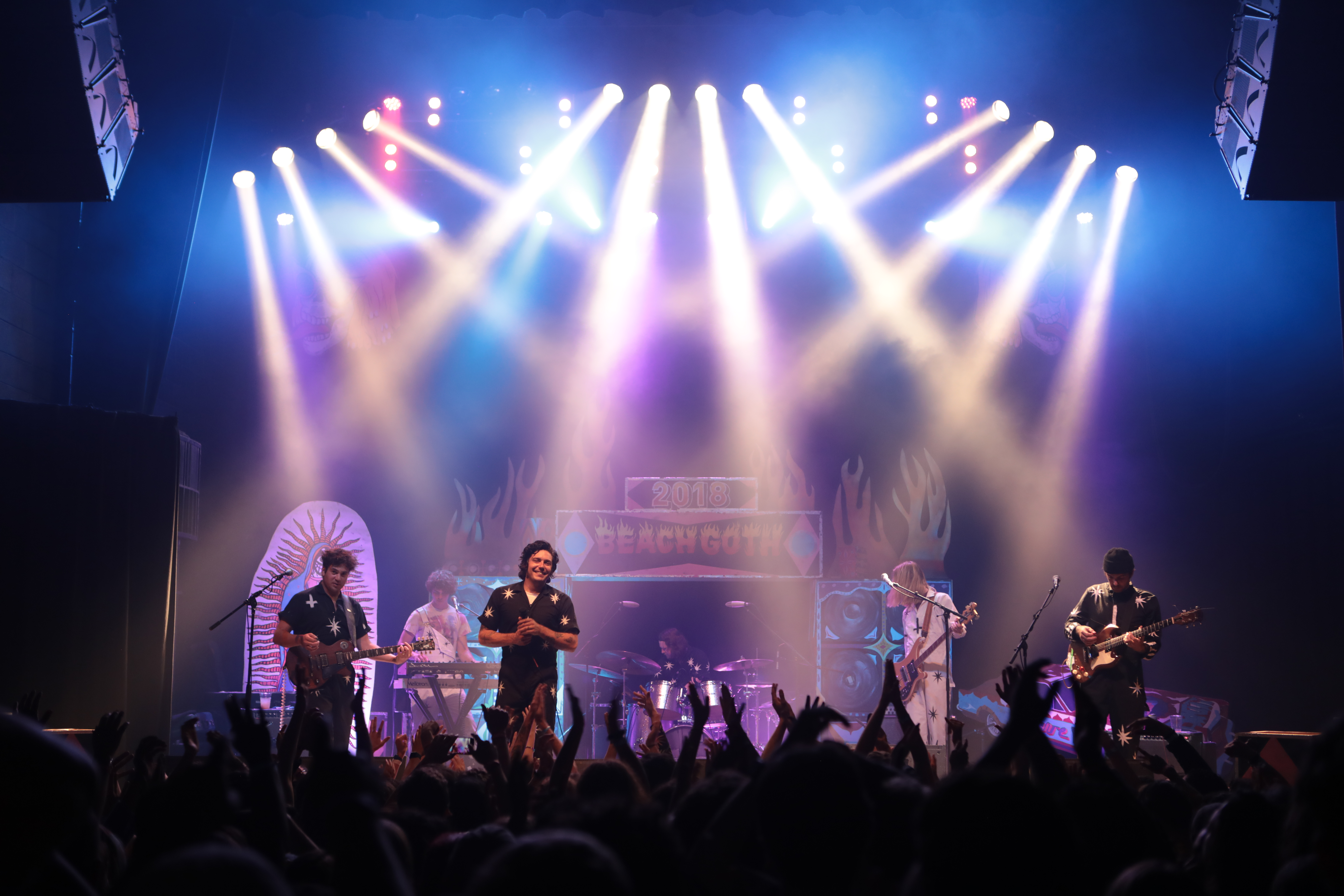 Shot during the Beach Goth Tour 2018.